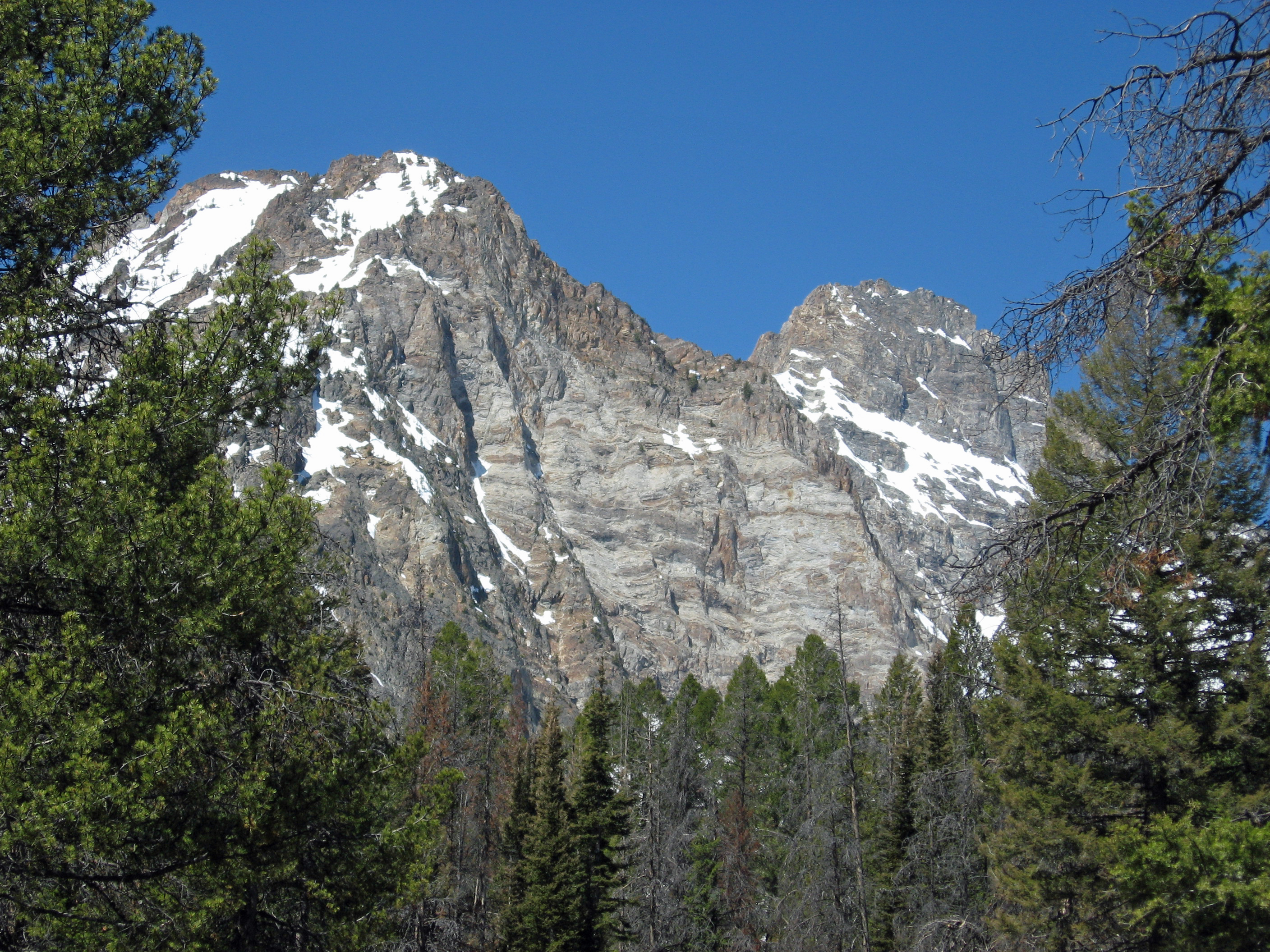 Thompson Peak in Idaho as viewed from the Alpine Way Trail in Sawtooth National Recreation Area in Custer County, Idaho.